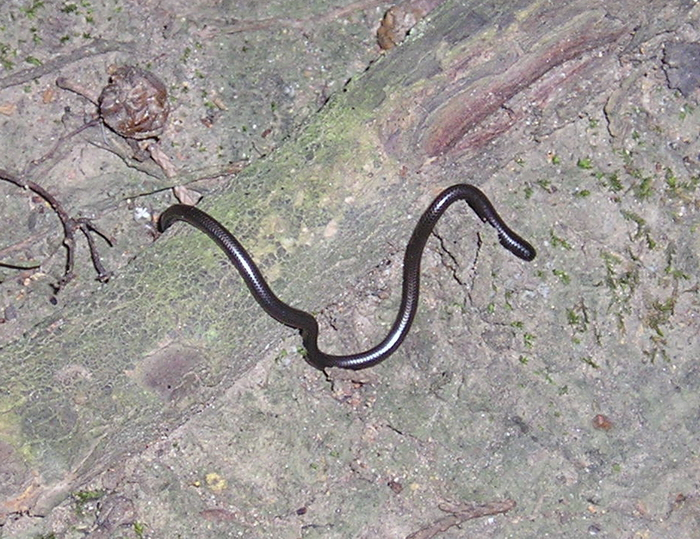 Leptotyphlops scutifrons